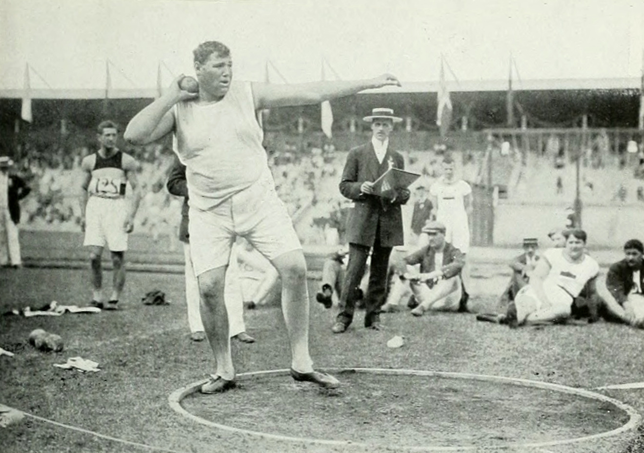 Ralph Rose during the shot put competition at the 1912 Summer Olympics